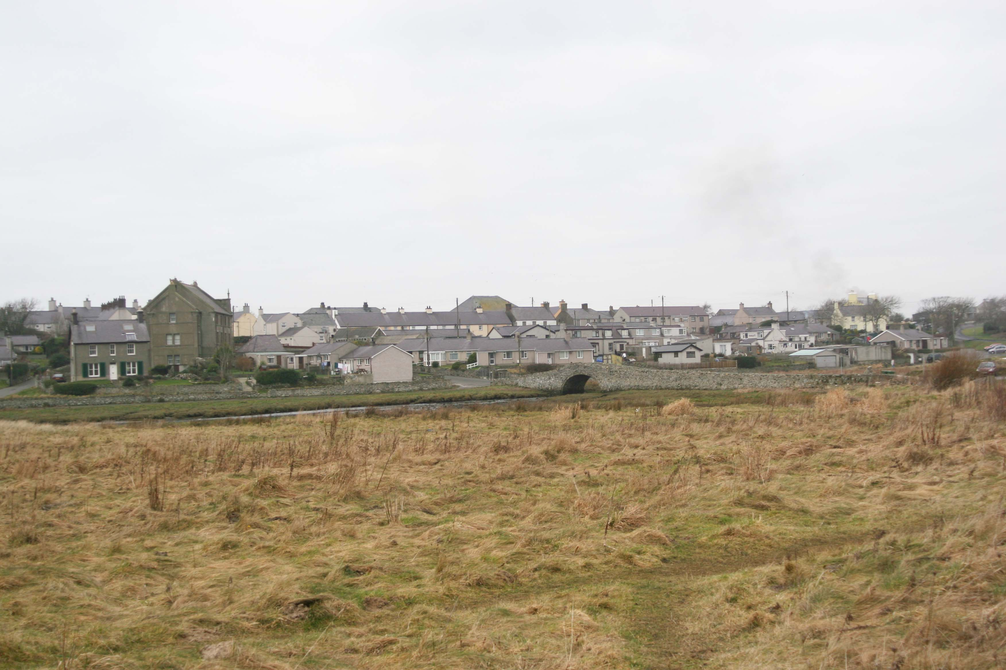 Aberffraw, viewed from the south Rhion Pritchard